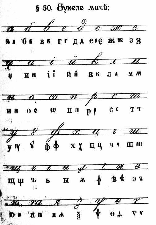 Moldavian Cyrillic alphabet from 1909 ABC-book